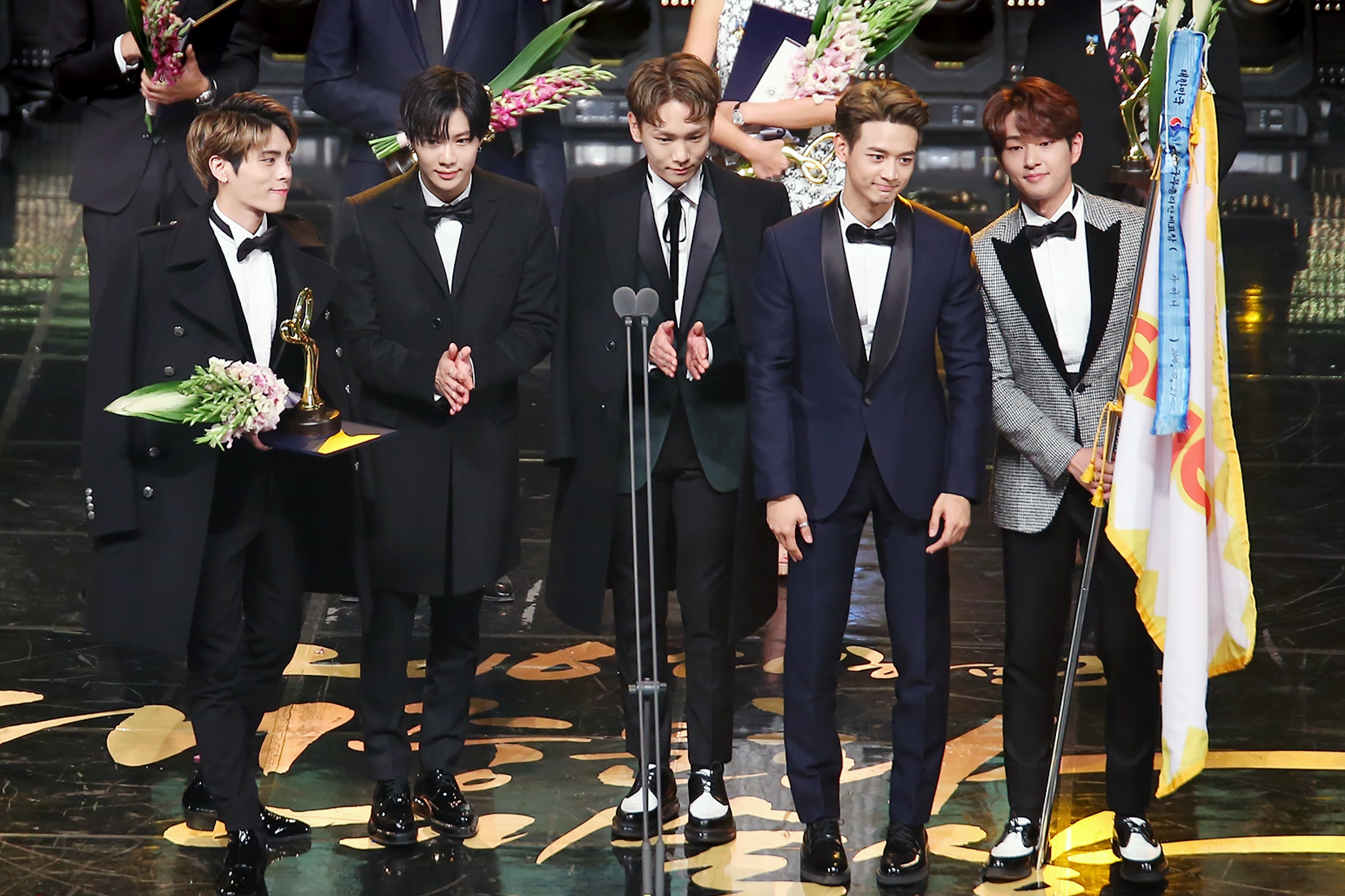 Shinee during the Korean Popular Culture and Arts Awards on October 27, 2016.